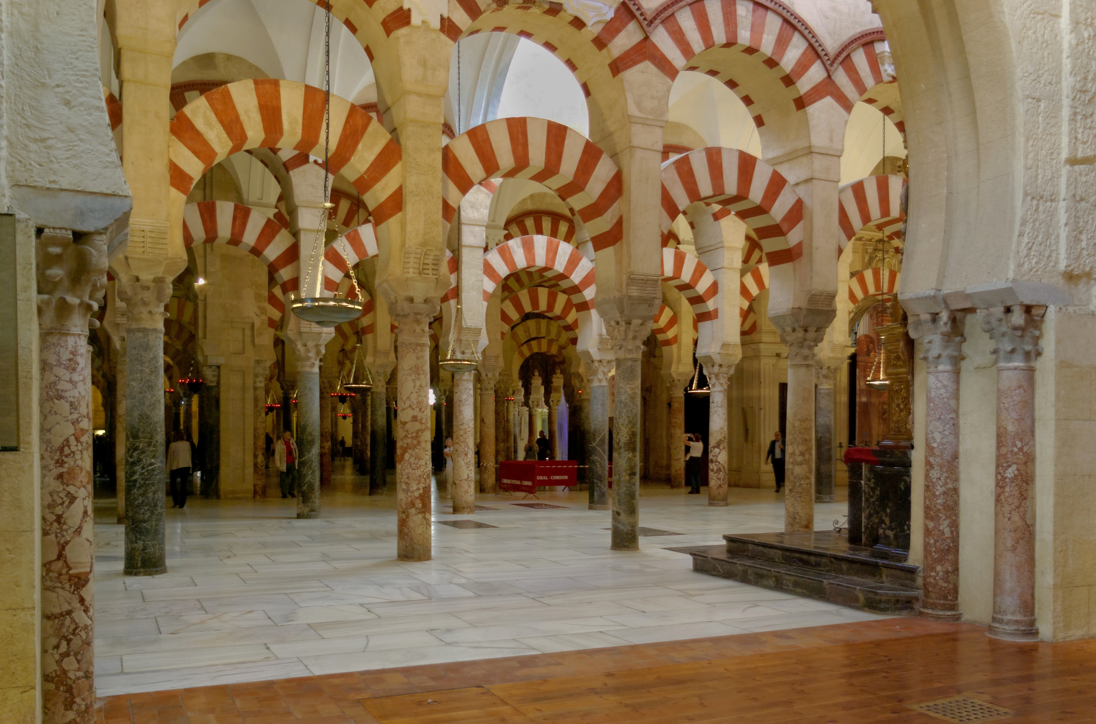 Spain, Cordoba, Mosque-Cathedral